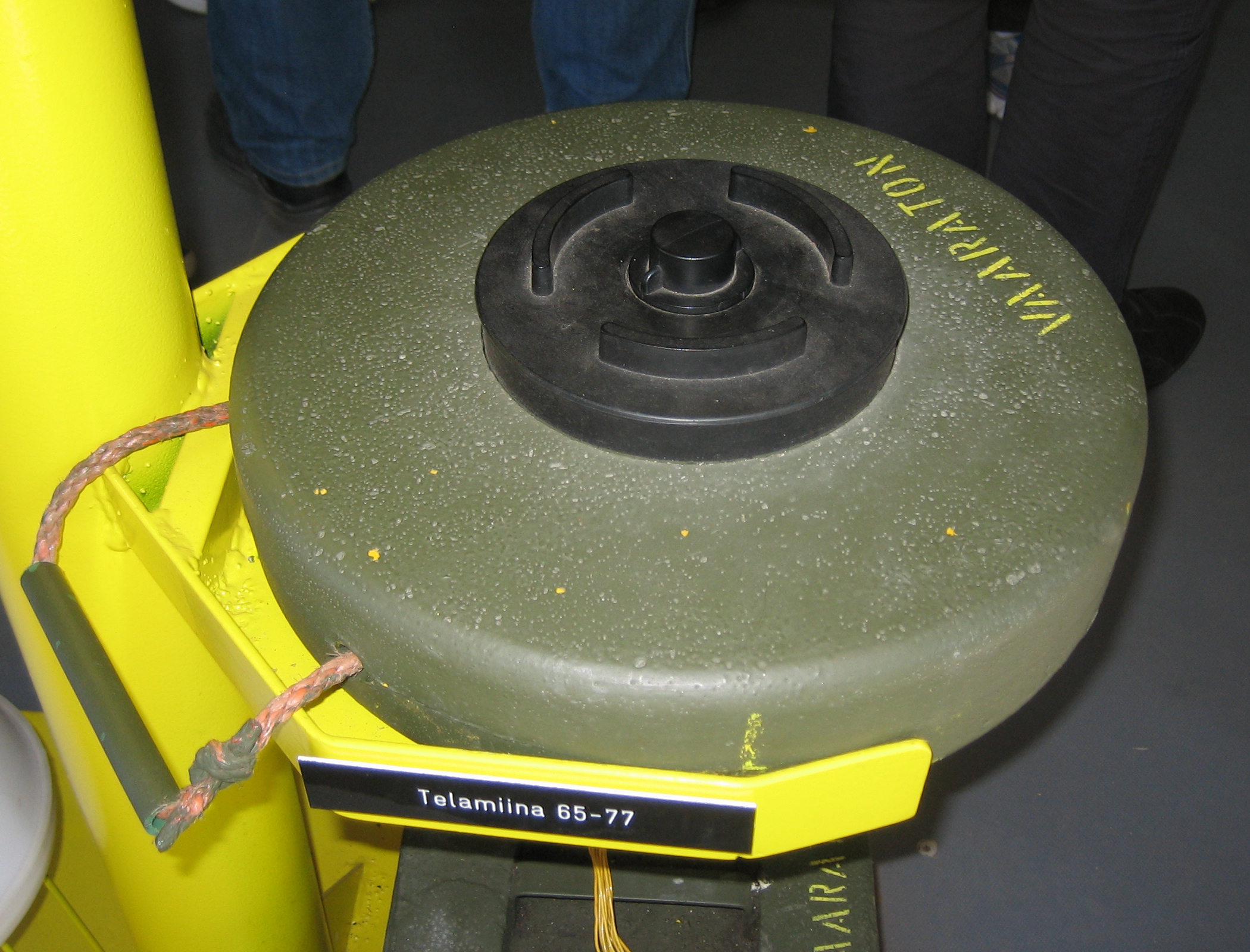 Finnish TM 65 77 (which stands for "telamiina 65 77", 'track mine 65 77') on display at Helsinki on Finnish Defence Forces' Day, 4 June 2017.